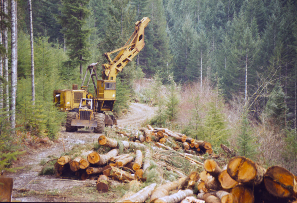 Washington TL-6 swing yarder (grapple yarder) working on high lead logging operation.